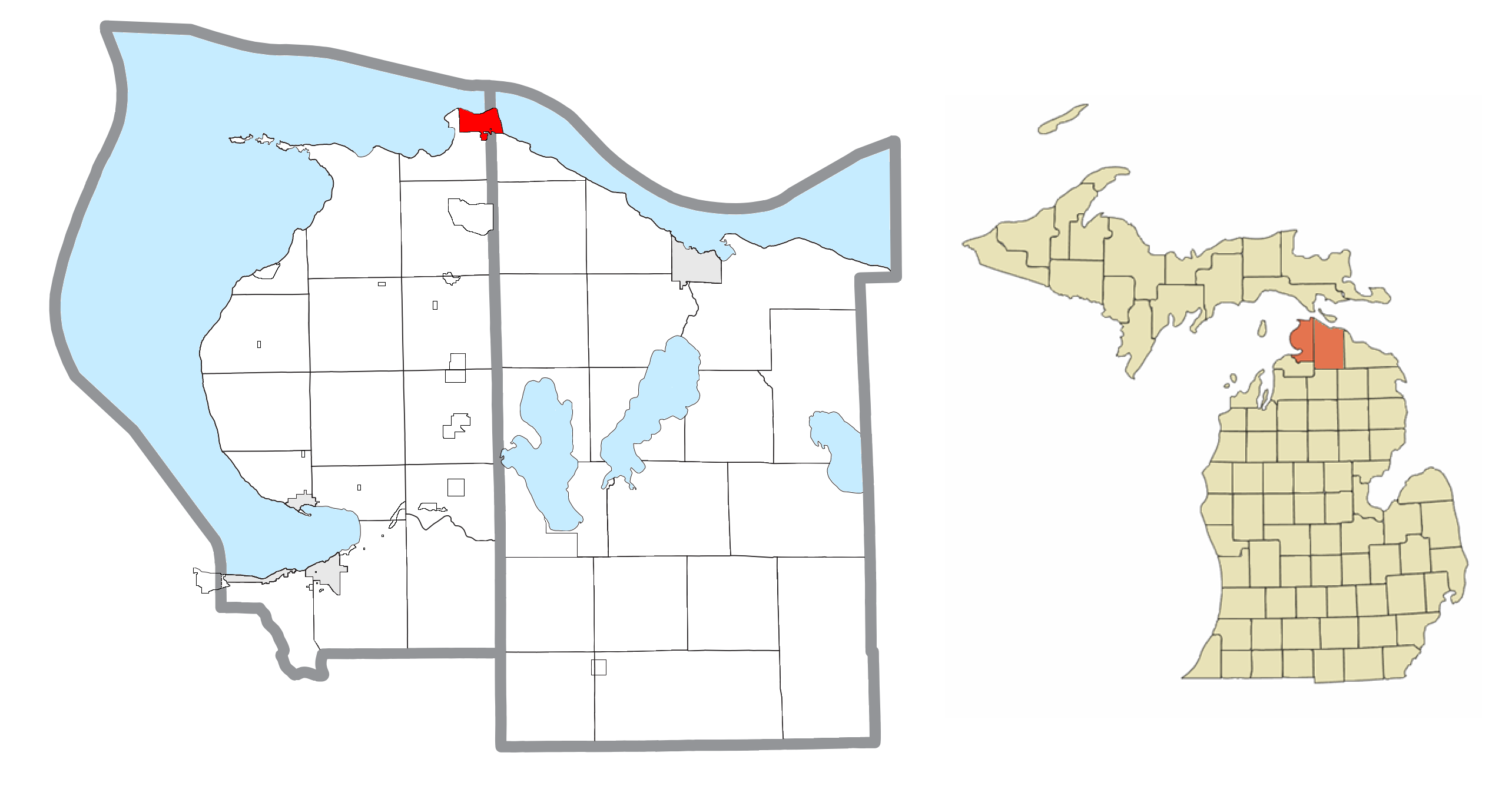 Mackinac City, MI